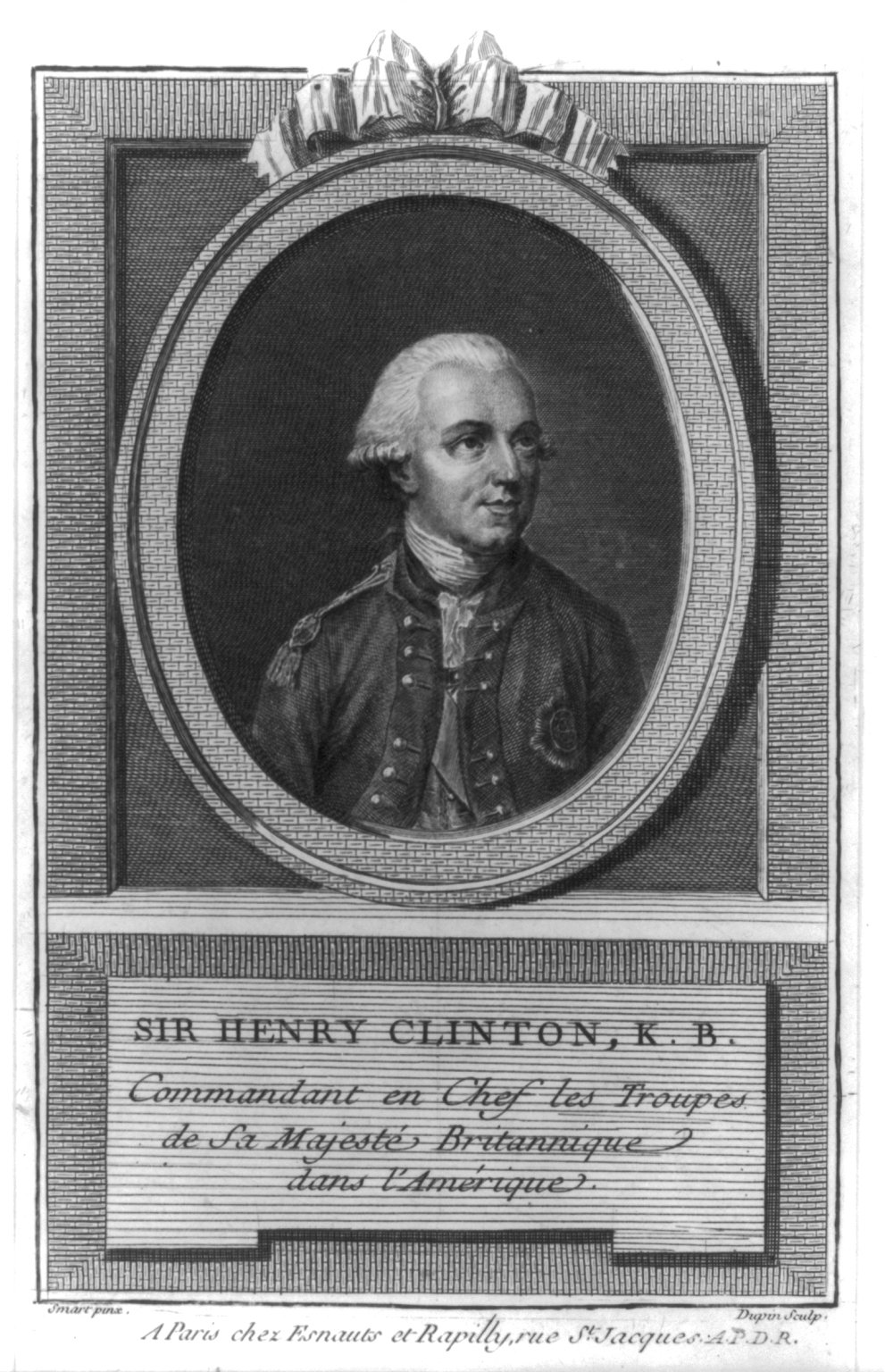 General Sir Henry Clinton K.B. Commander-in-Chief of British troops in America. Publisher: Esnauts et Rapilly, Paris. Published between 1770 and 1780. Repository: Library of Congress Prints and Photographs Division Washington, D.C. 20540 USA Public Domain